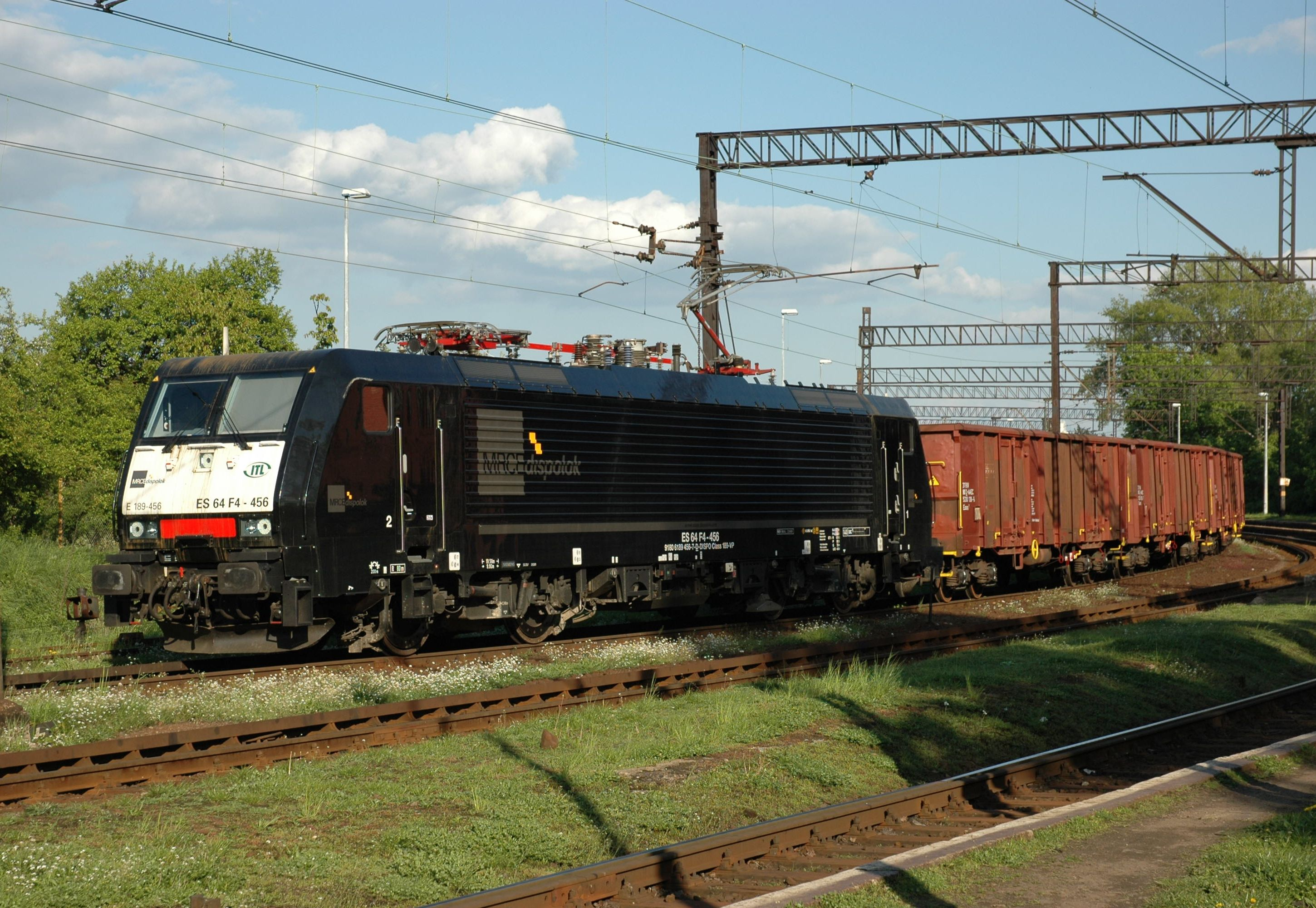 Locomotive 189 456 (ES64F4-456) owned by MRCE Dispolok, with train of ITL Polska railway operator, Świebodzice, Poland